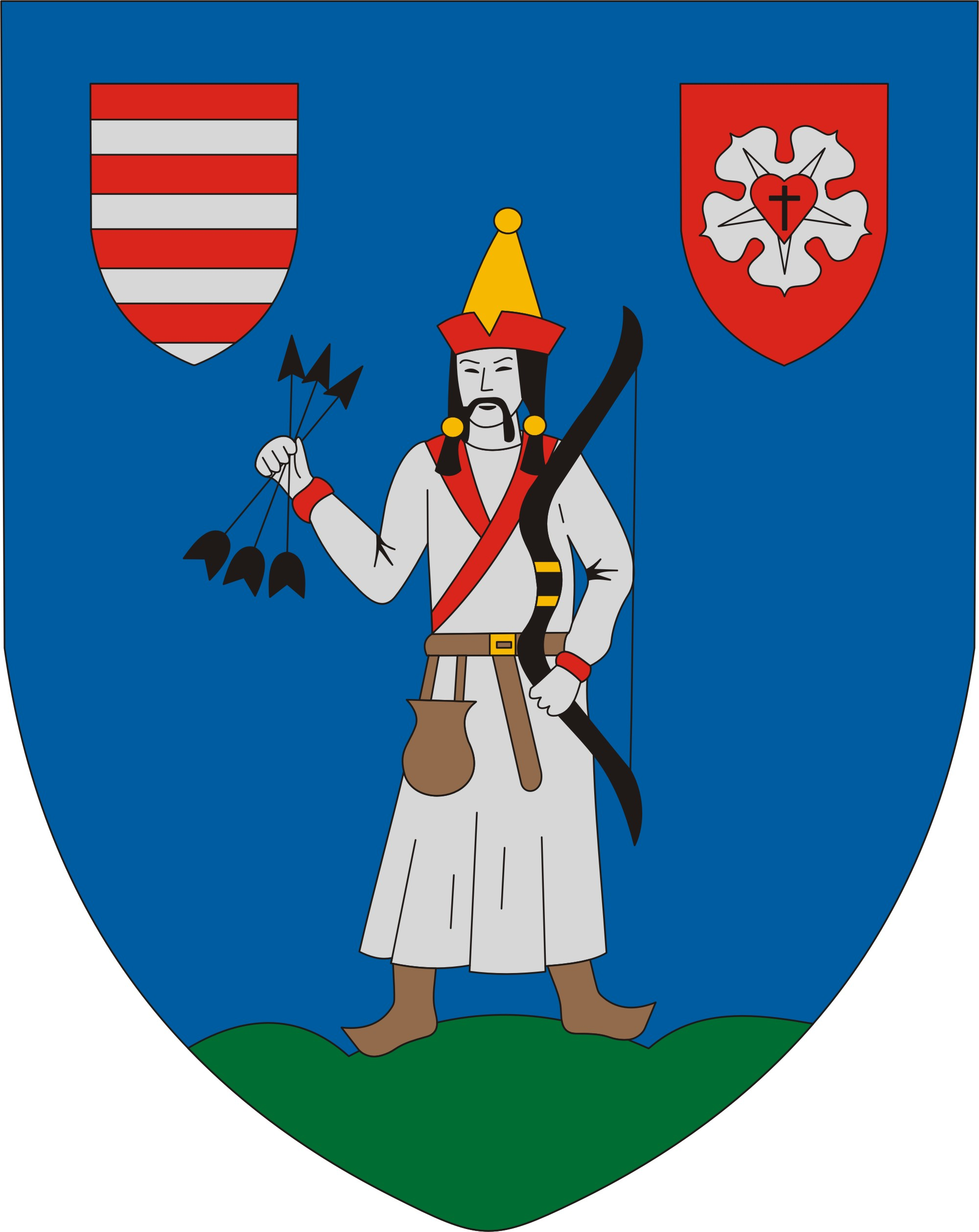 Coat of arms of Nagyveleg, Hungary